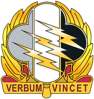 4th Military Information Support Group